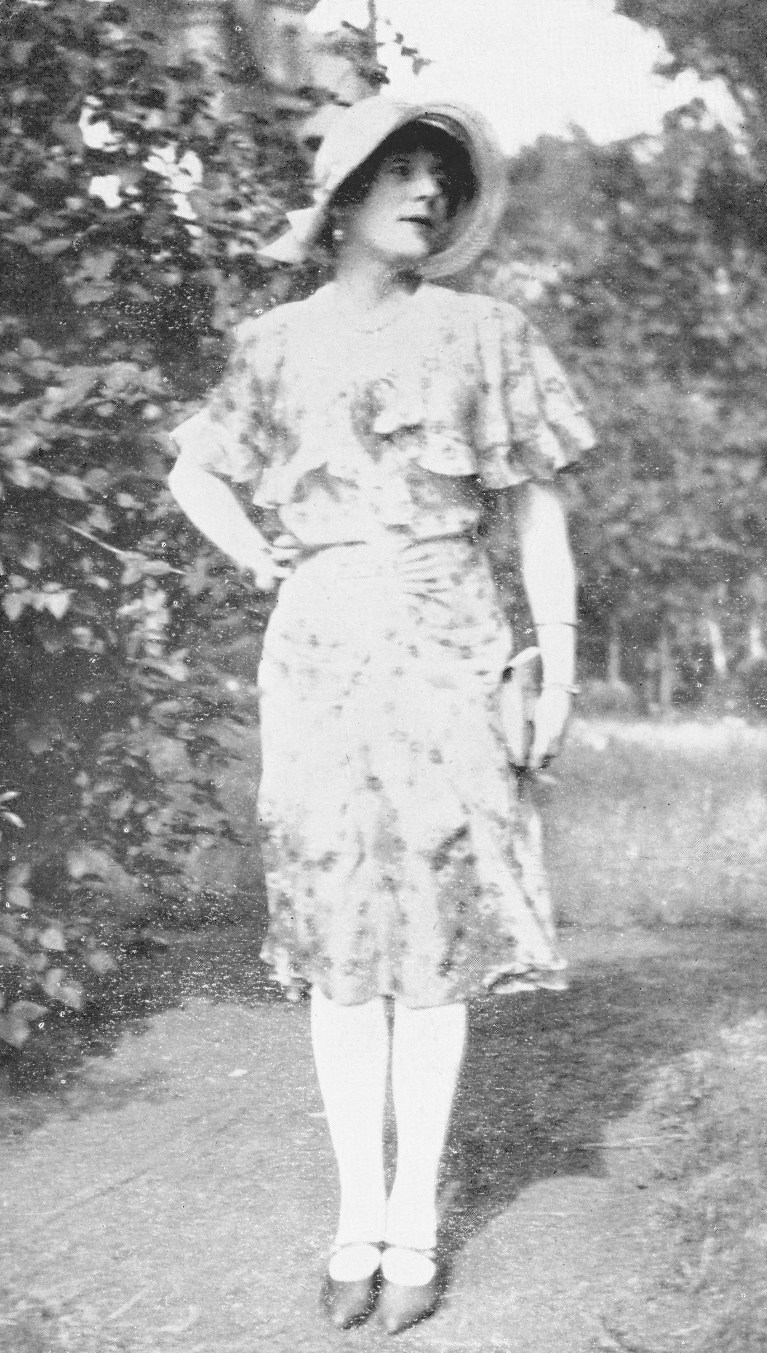 from N. Hoyer, ed., Man into Woman. An Authentic Record of a Change of Sex. The true story of the miraculous transformation of the Danish painter Einar Wegener (Andreas Sparre). London: Jarrolds, 1933. Photograph: Lili Elbe in the Women's Clinic, Dresden, 1930, opp. p.152.